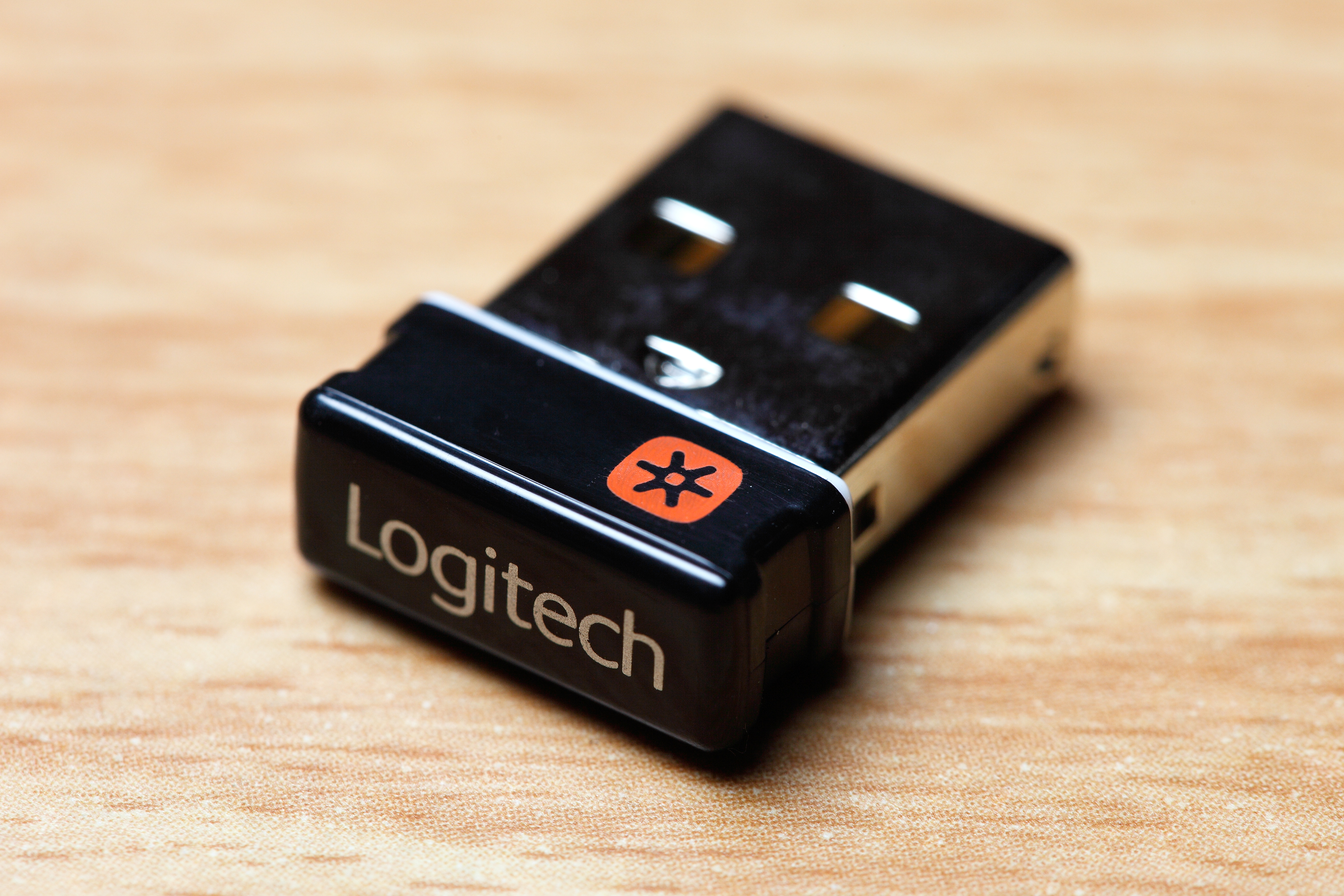 A close-up of a Logitech Unifying receiver